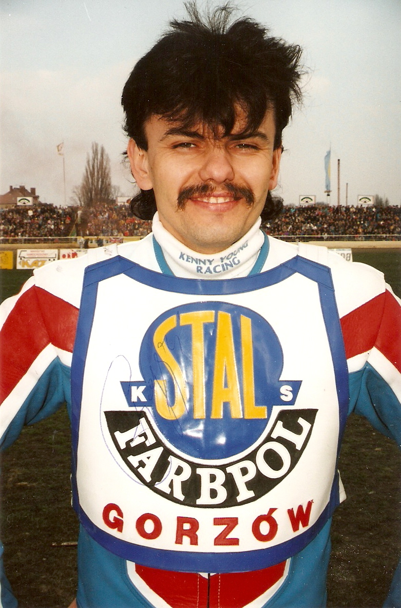 Ryszard Franczyszyn - polish speedway rider.